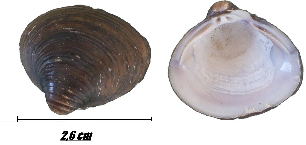 Asian clam